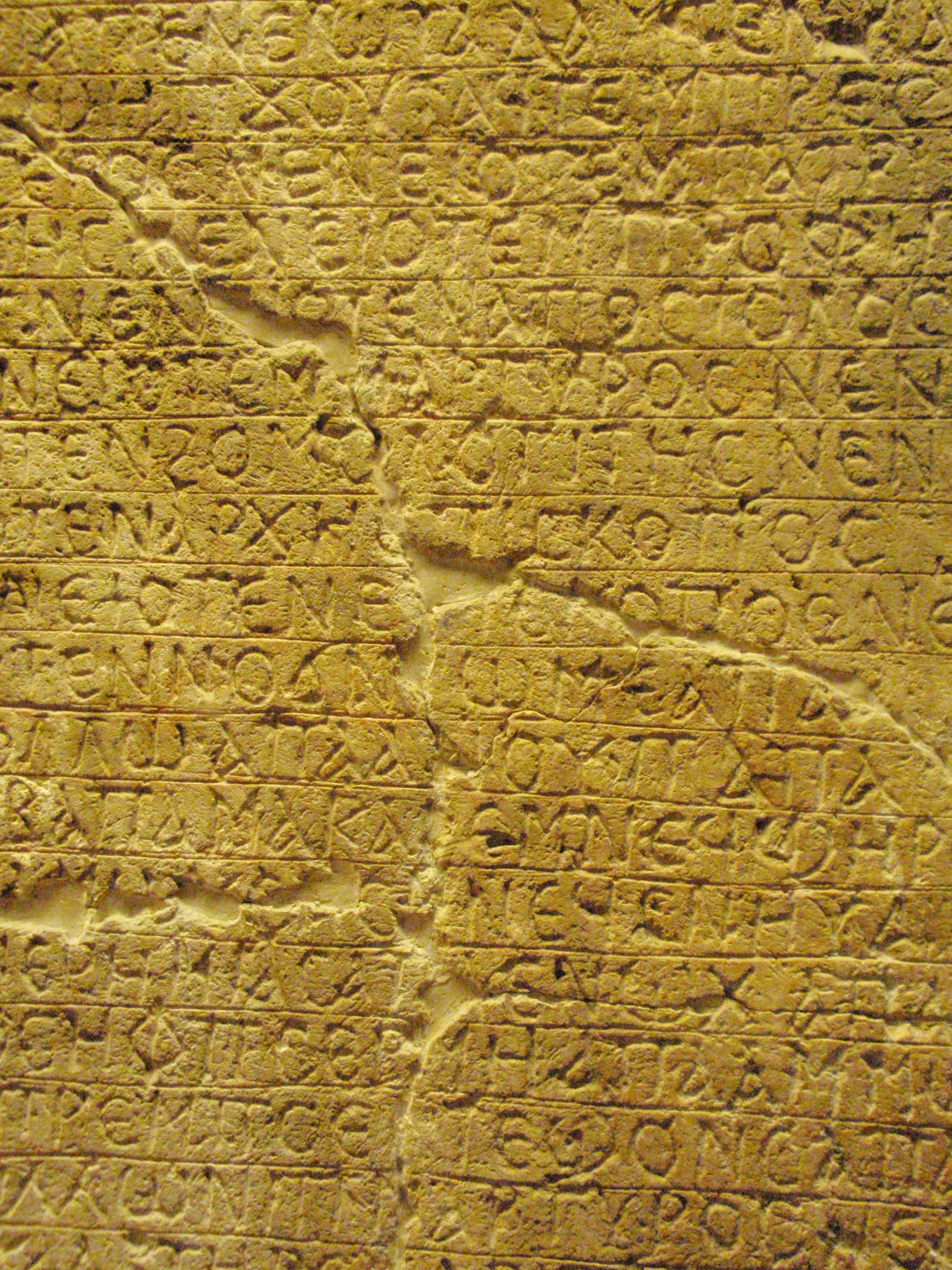 Coptic liturgic inscription from Upper Egypt, 5th-6th century A.D. Found in the collections of the Vatican Museums.